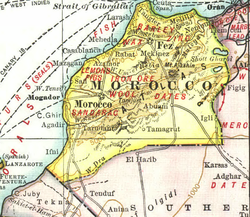 Morocco in 1909